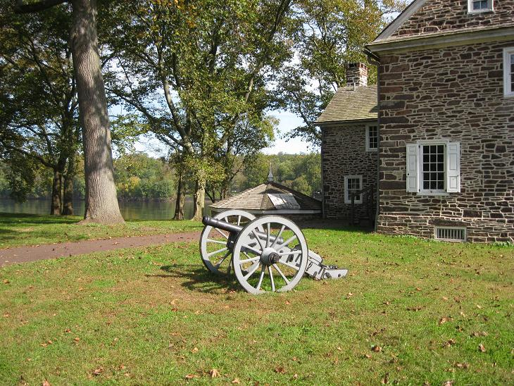 Photo showing a cannon, probably a 3-pounder, at Washington's Crossing Historic Park, PA with the Delaware River in the background.